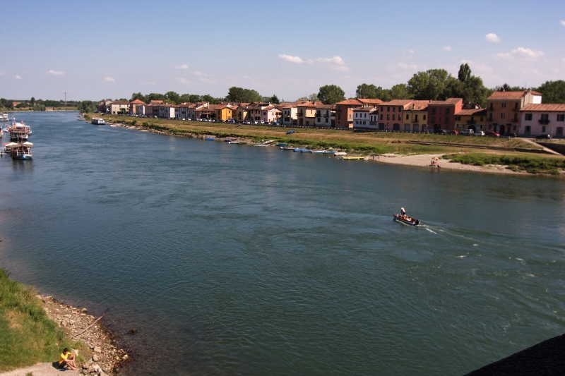 Ticino River, Pavia, Italy